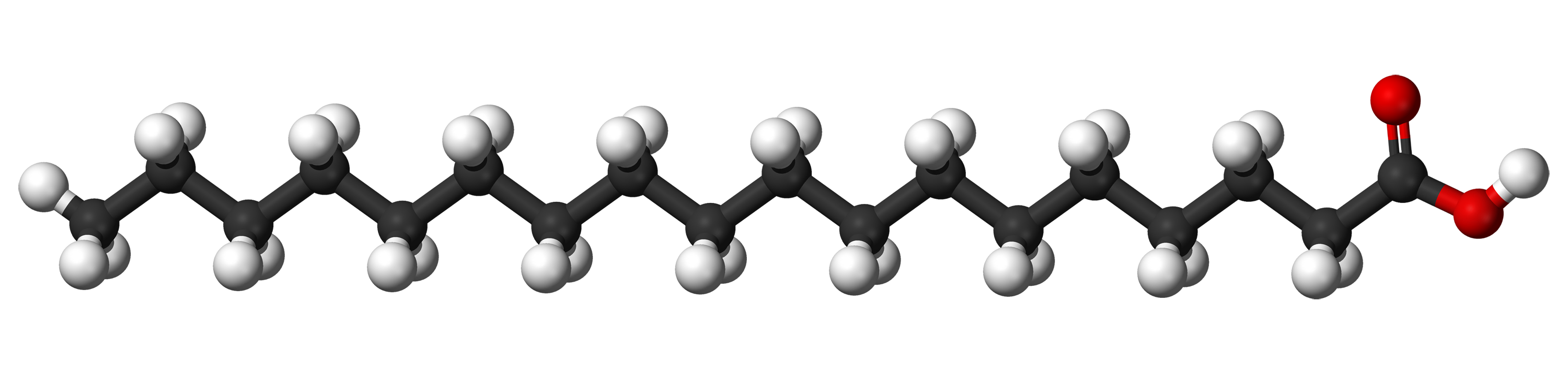 Ball-and-stick model of the stearic acid molecule (also known as octadecanoic acid), a saturated fatty acid with 18 carbon atoms.